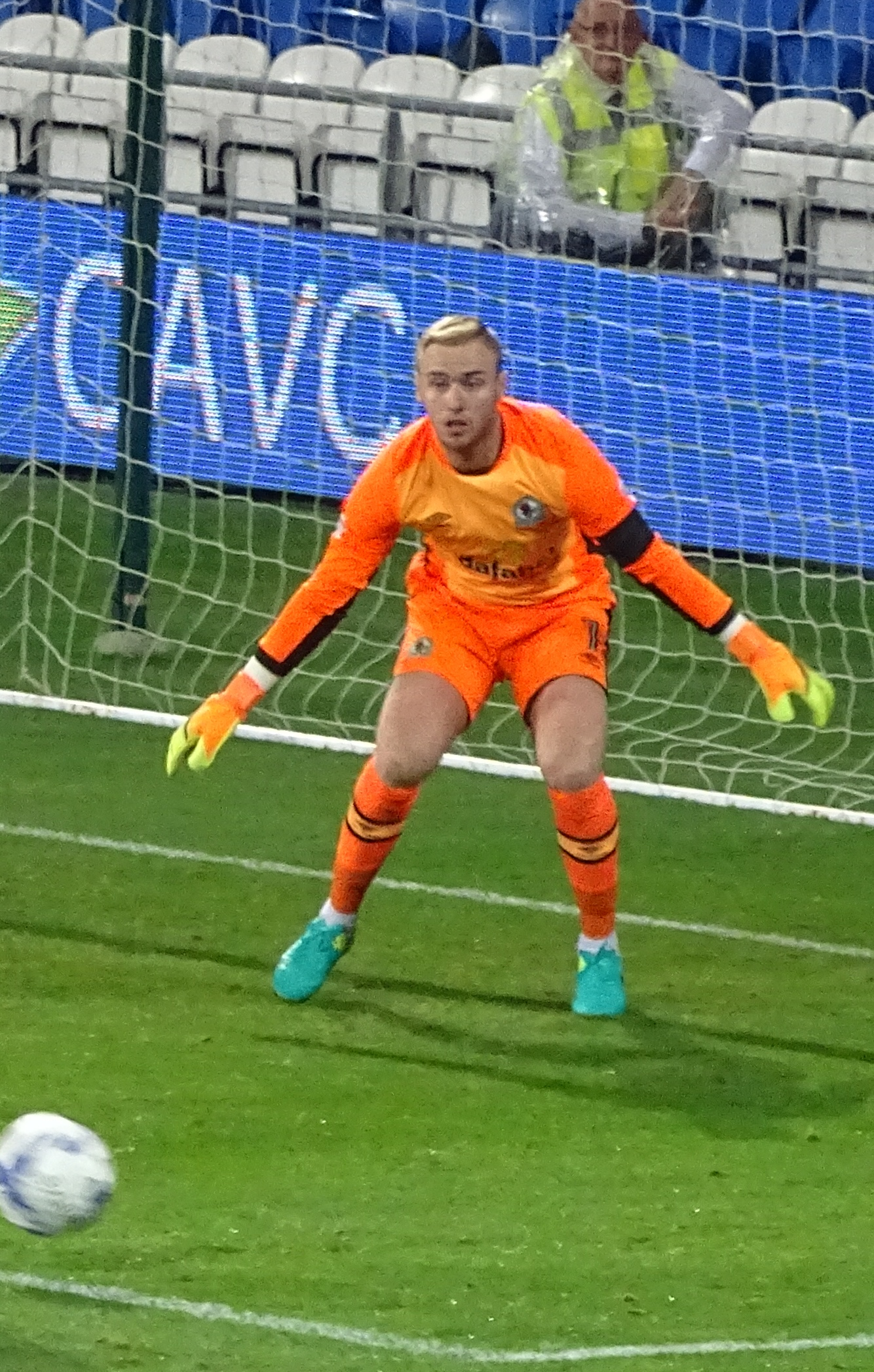 Footballer Jason Steele playing for Blackburn Rovers.